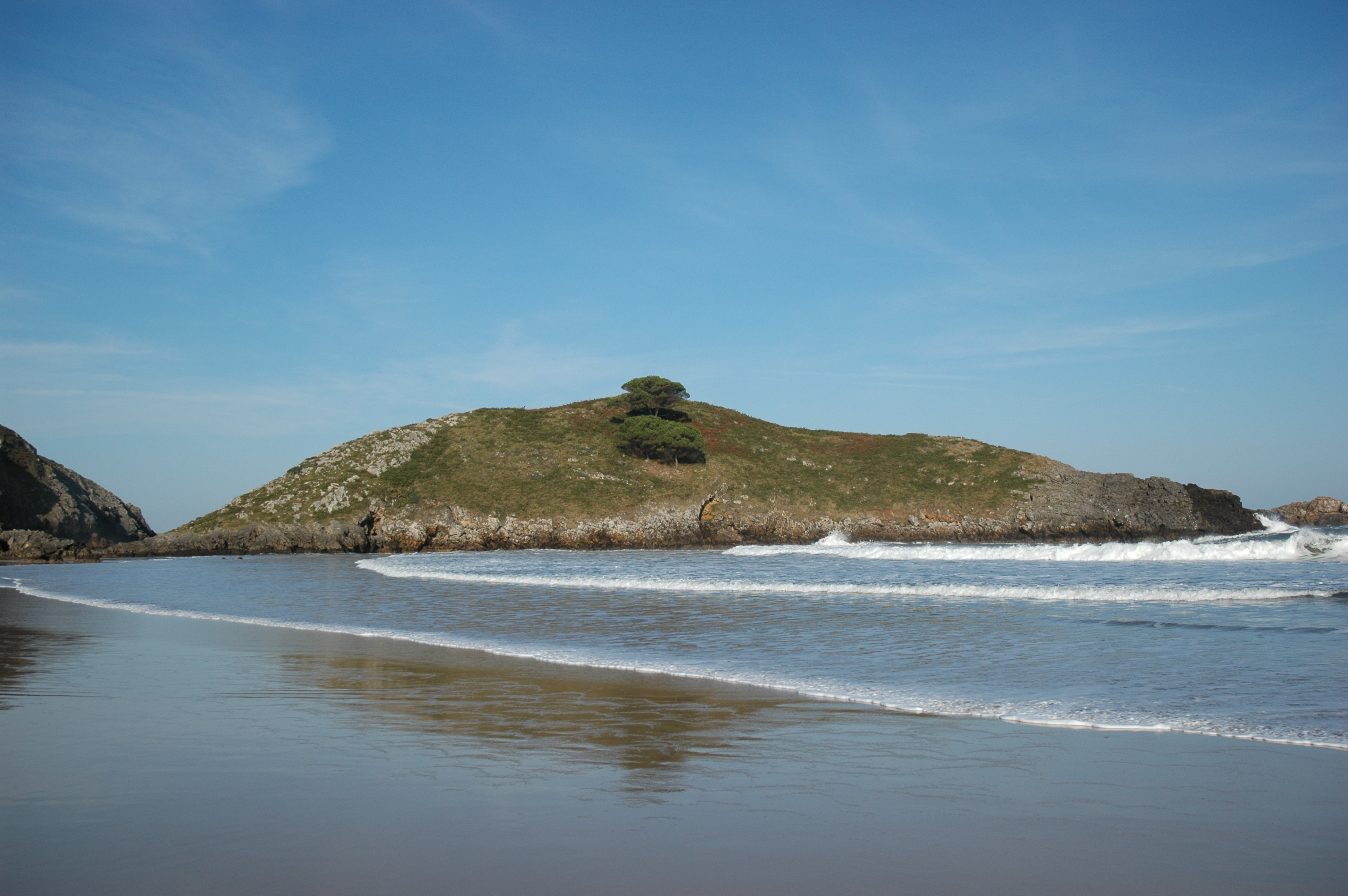 Western side of the beach of Barru (Llanes, Asturies). El Pinu islet can be seen in the picture.